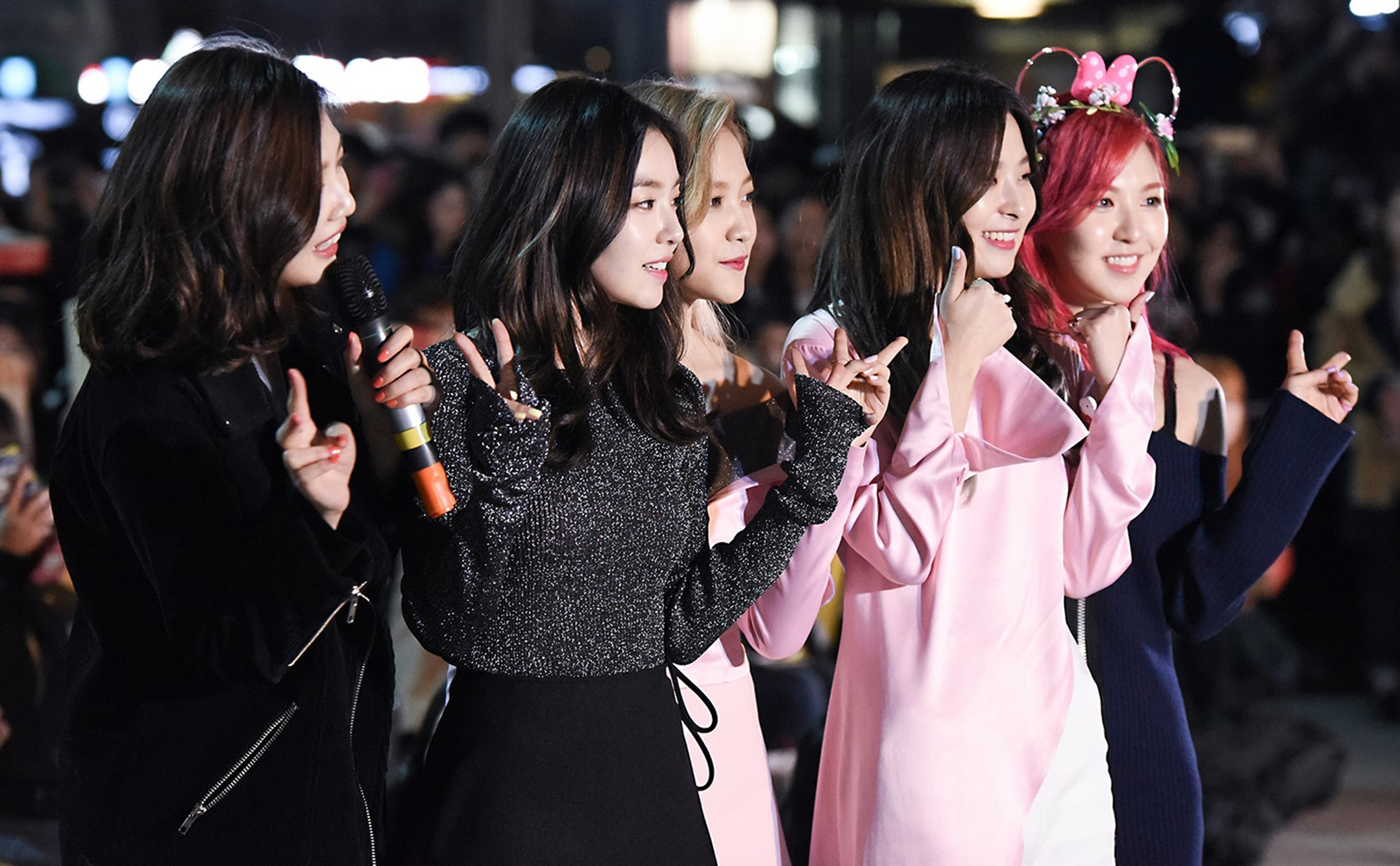 Red Velvet at a fanmeet in Incheon on March 19, 2016.